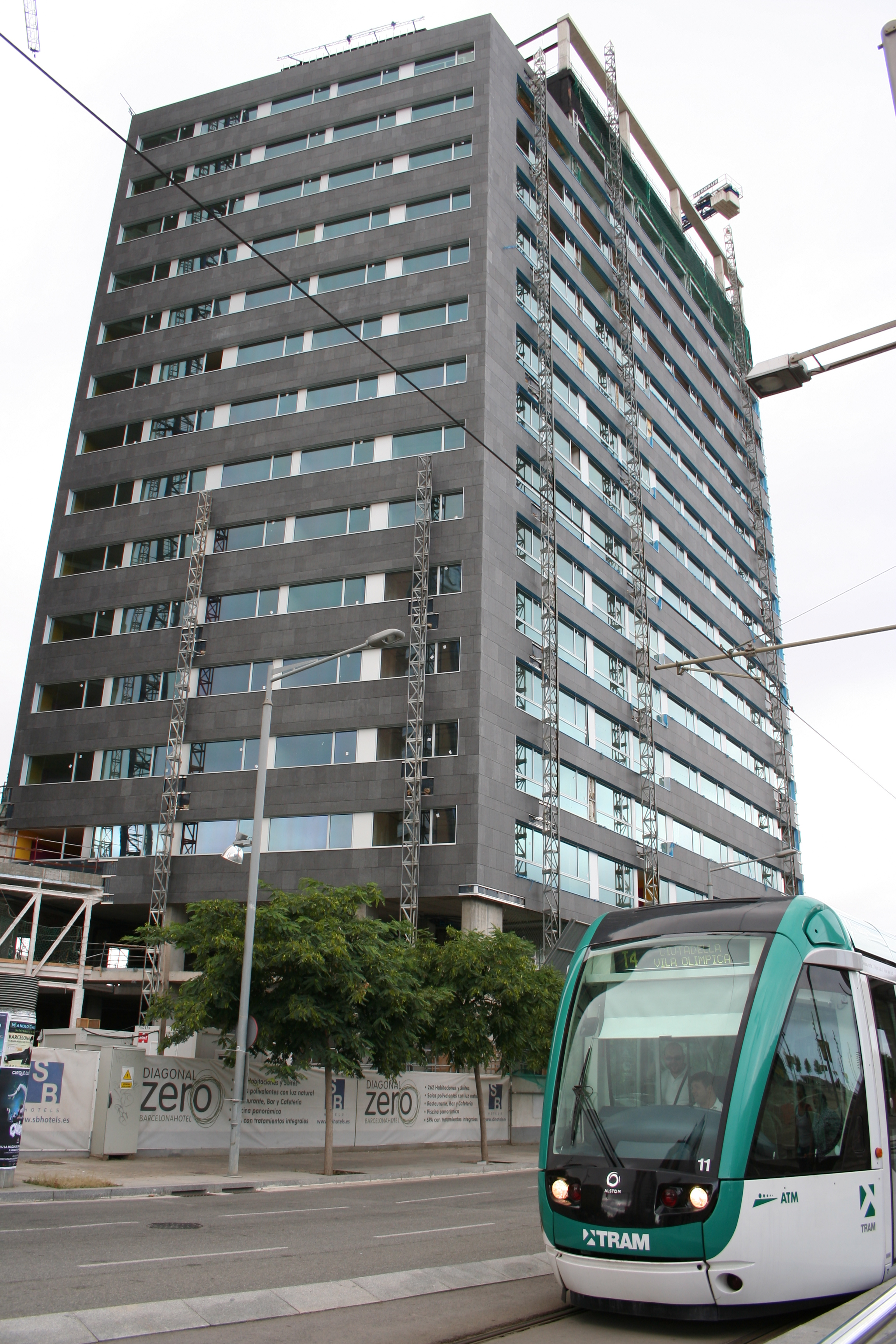 Tram in the Fòrum station, with Hotel Diagonal Zero in constrution.